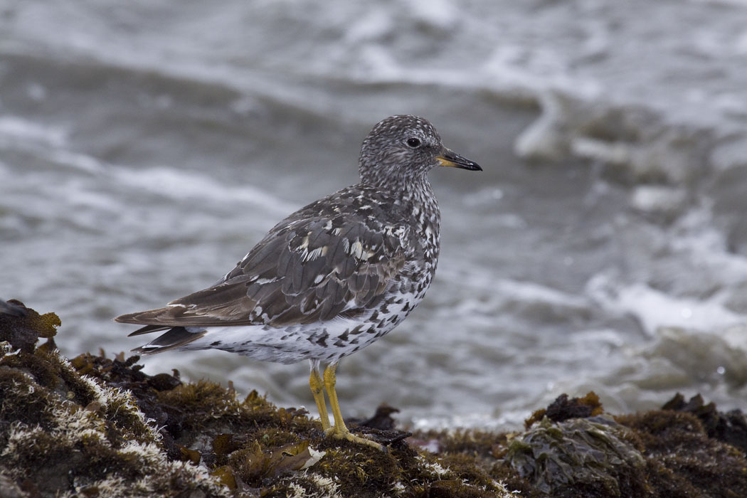 One of a group of 4 adult Surfbirds in worn summer plumage at Cayucos, California, USA.